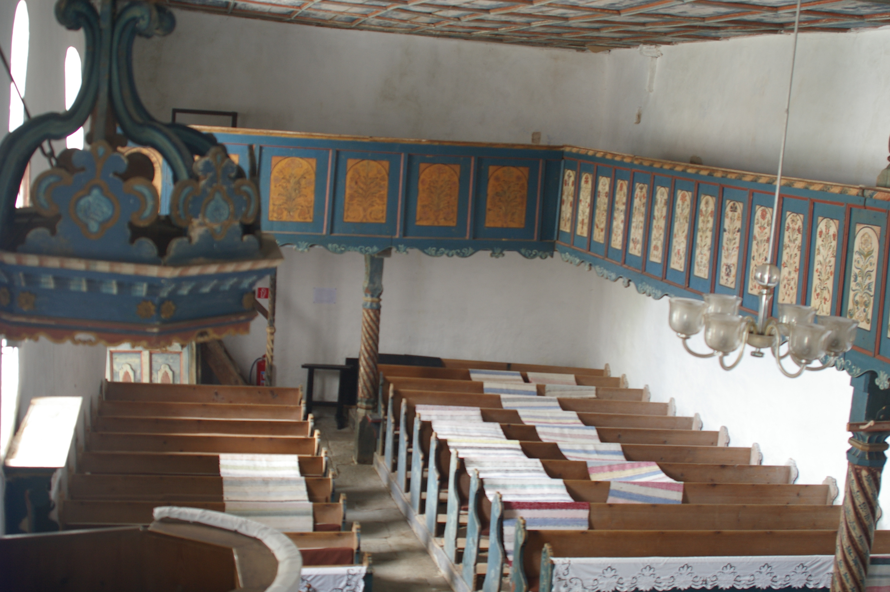 Silická Brezová - church